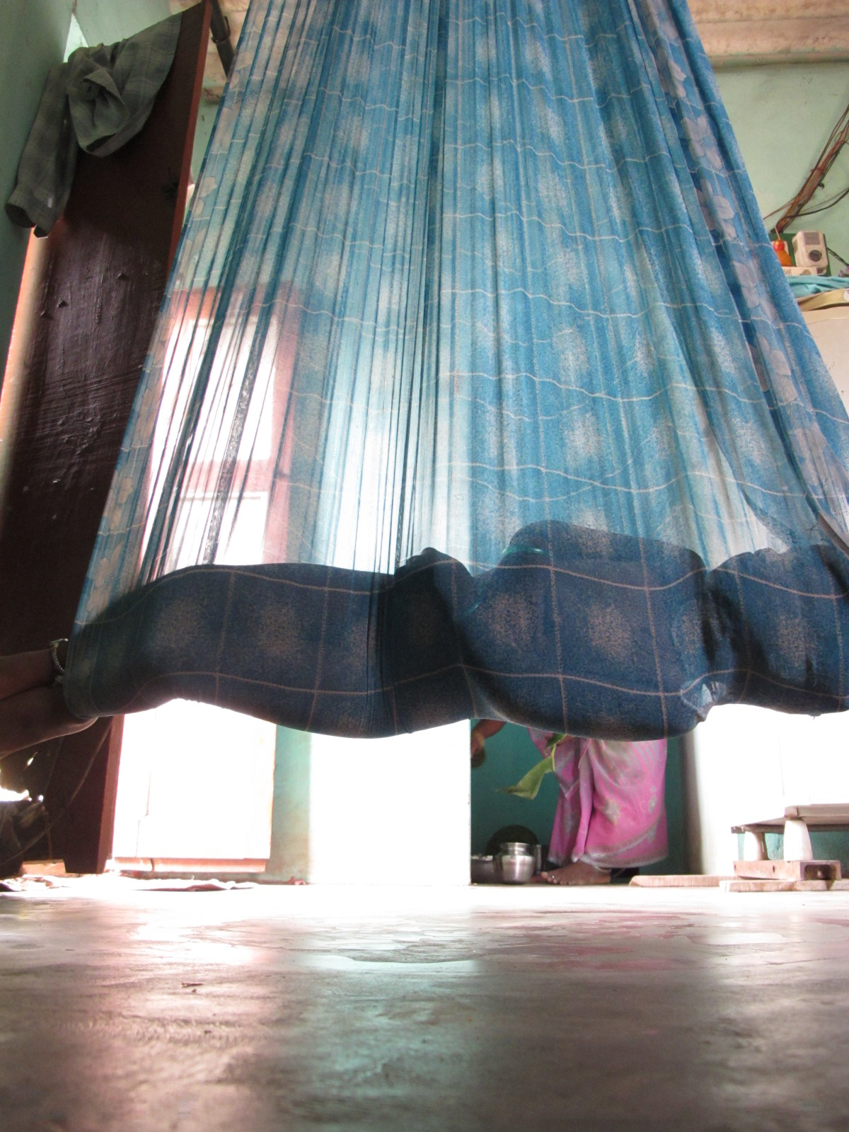 Sari ceiling mounted hammock - baby swing bassinet cradle toddler hanging indoor cocoon crib bed infant ceiling mounted Saree hammock little children kids Perumbakkam and Kuvagam picture Tamil Nadu India jpg image feature photo by Etan Doronne Wikipedia